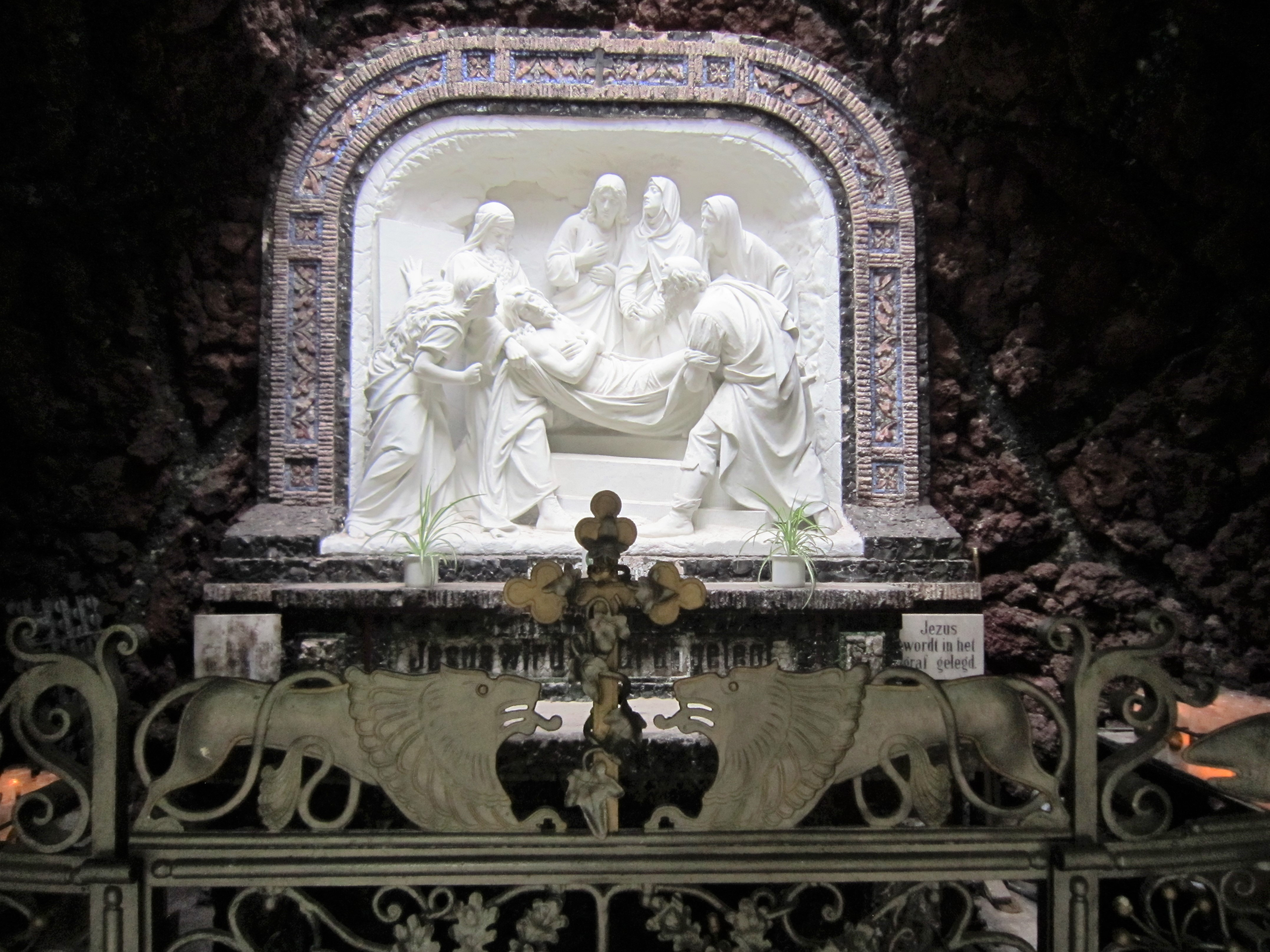 Station XIV of the stations of the cross in Moresnet-Chapelle (Belgium). The relief is illuminated by the daylight shining through a slit in the ceiling of the grotto.